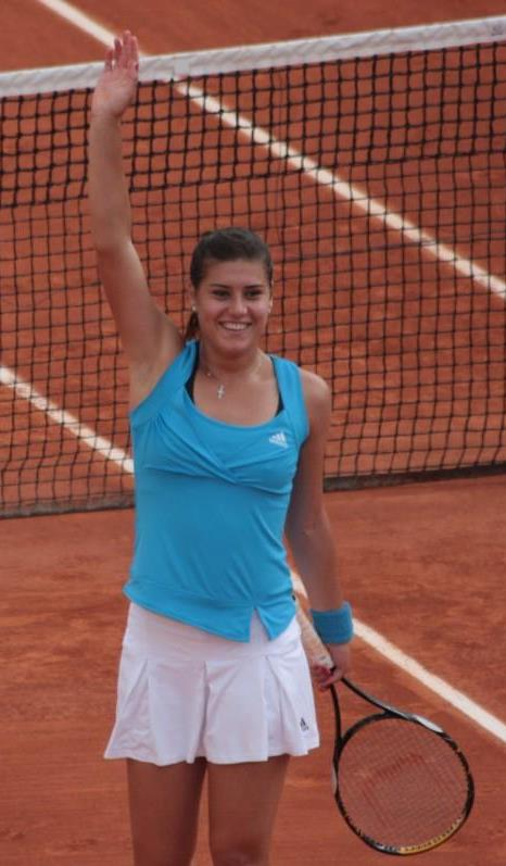 Sorana Cîrstea at 2009 Roland Garros, Paris, France